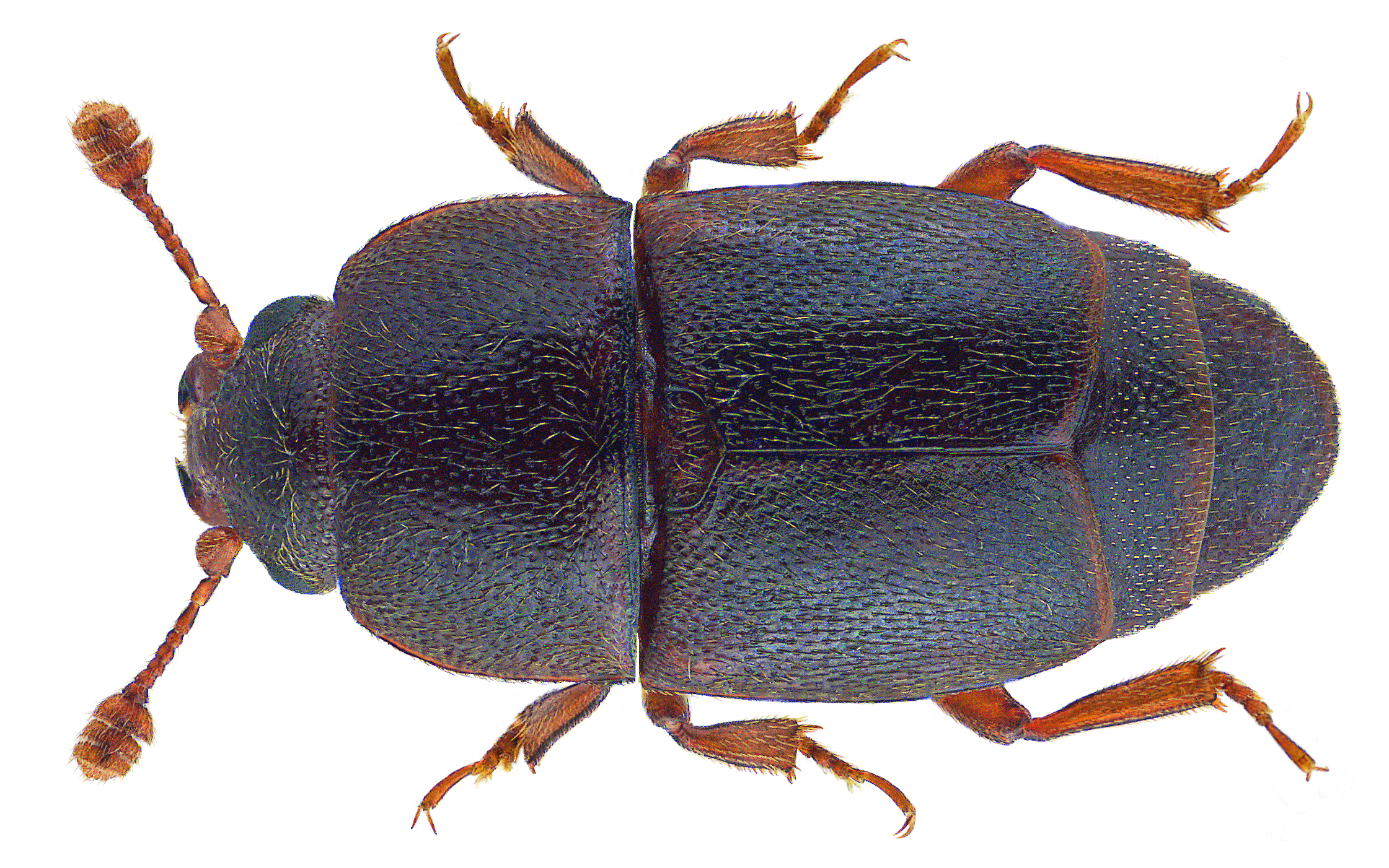 Family: Nitidulidae Size: 2.9 mm (2.0 to 3.5 mm) Origin: Cosmopolitan, synanthropic and in the field, introduced and naturalized from tropical areas to Europe Ecology: the beetle lives of plants and plant products Location: Germany, Bavaria, Upper Franconia, Selbitz, Foehrigbachtal leg.det. U.Schmidt, 27.VI.2001 Photo: U.Schmidt, 2016